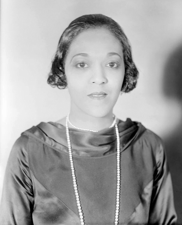 Photograph of Evelyn Ellis as Bess in the original Broadway production of Porgy (1927)